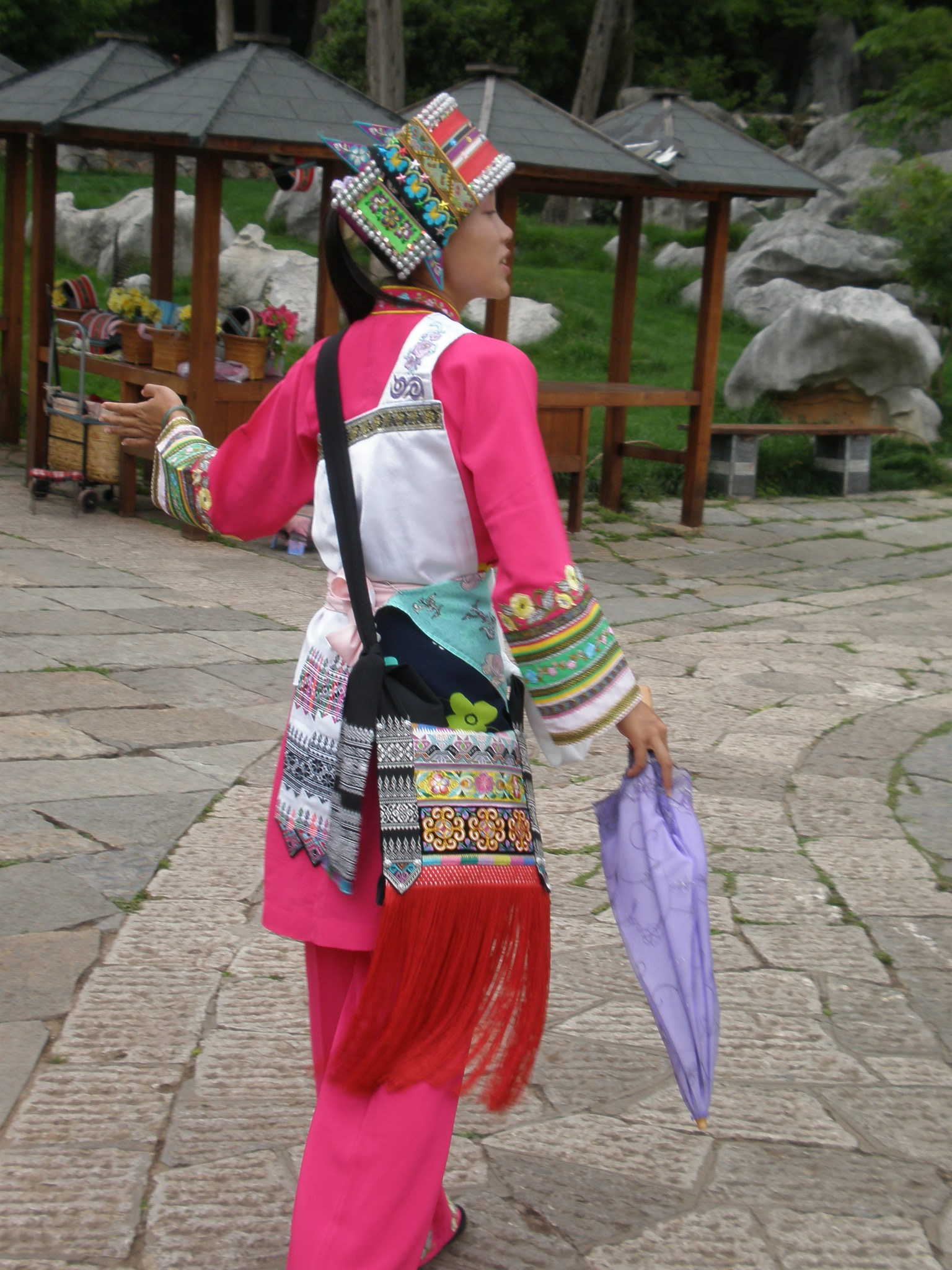 A Sani tour guide at the Stone Forest in Yunnan. The Sani are a subgroup of the Yi minority.